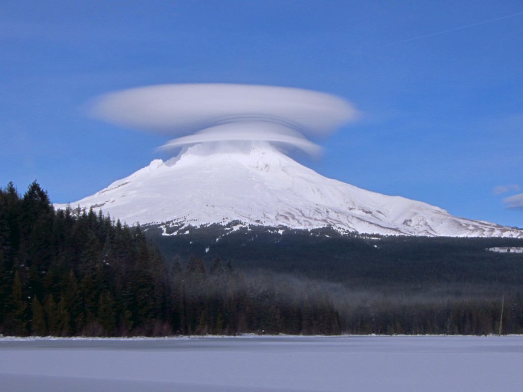 Lenticular cloud over Mt. Hood, Oregon